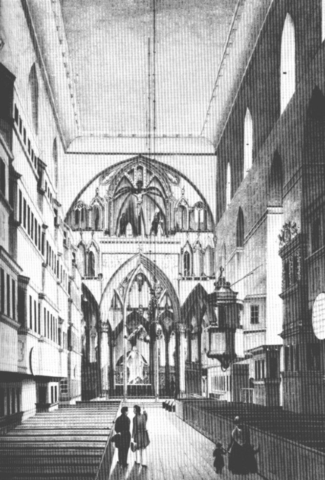 Chiore of Nidaros Chatedral, Trondheim, Norway, before restoration (c. 1840).